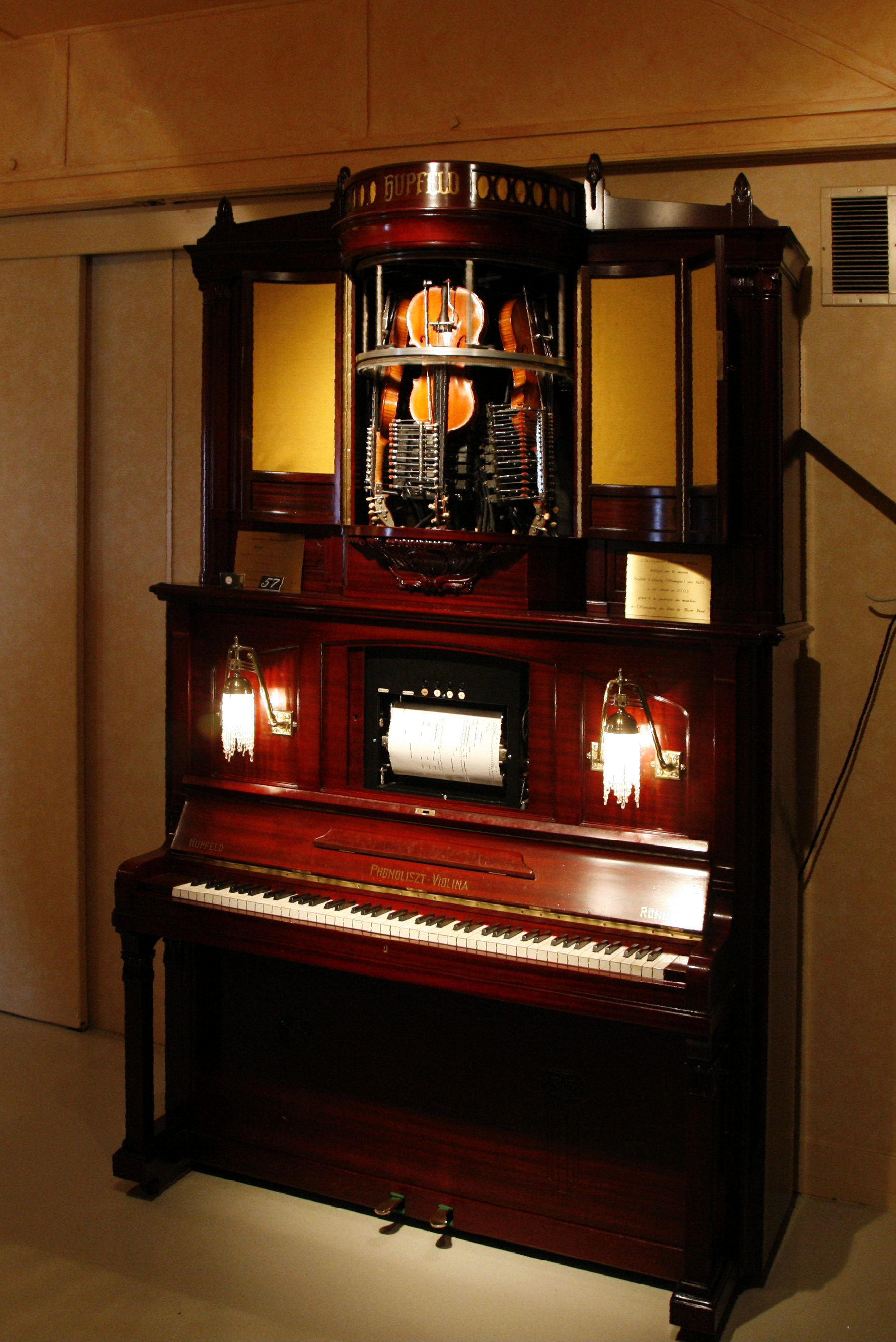 Musée Baud